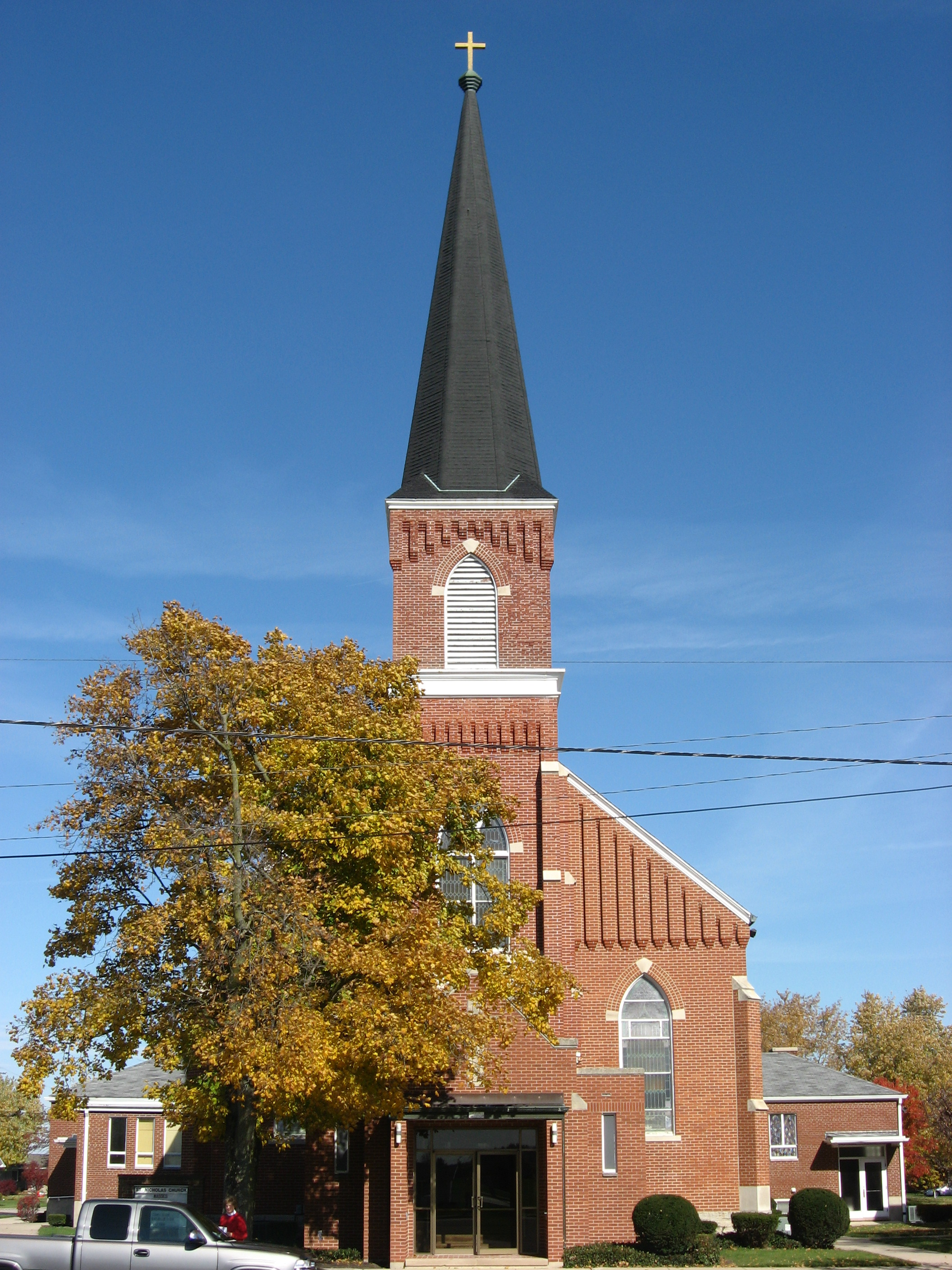 Front of St. Nicholas' Catholic Church, located at the junction of Main (State Route 705) and Church Streets on the eastern side of Osgood, Ohio, United States. Built in 1907, the church and its rectory were added to the National Register of Historic Places as a part of the Cross-Tipped Churches of Ohio Thematic Resources.